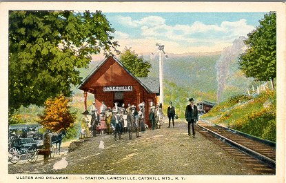 The station at Lanesvile.